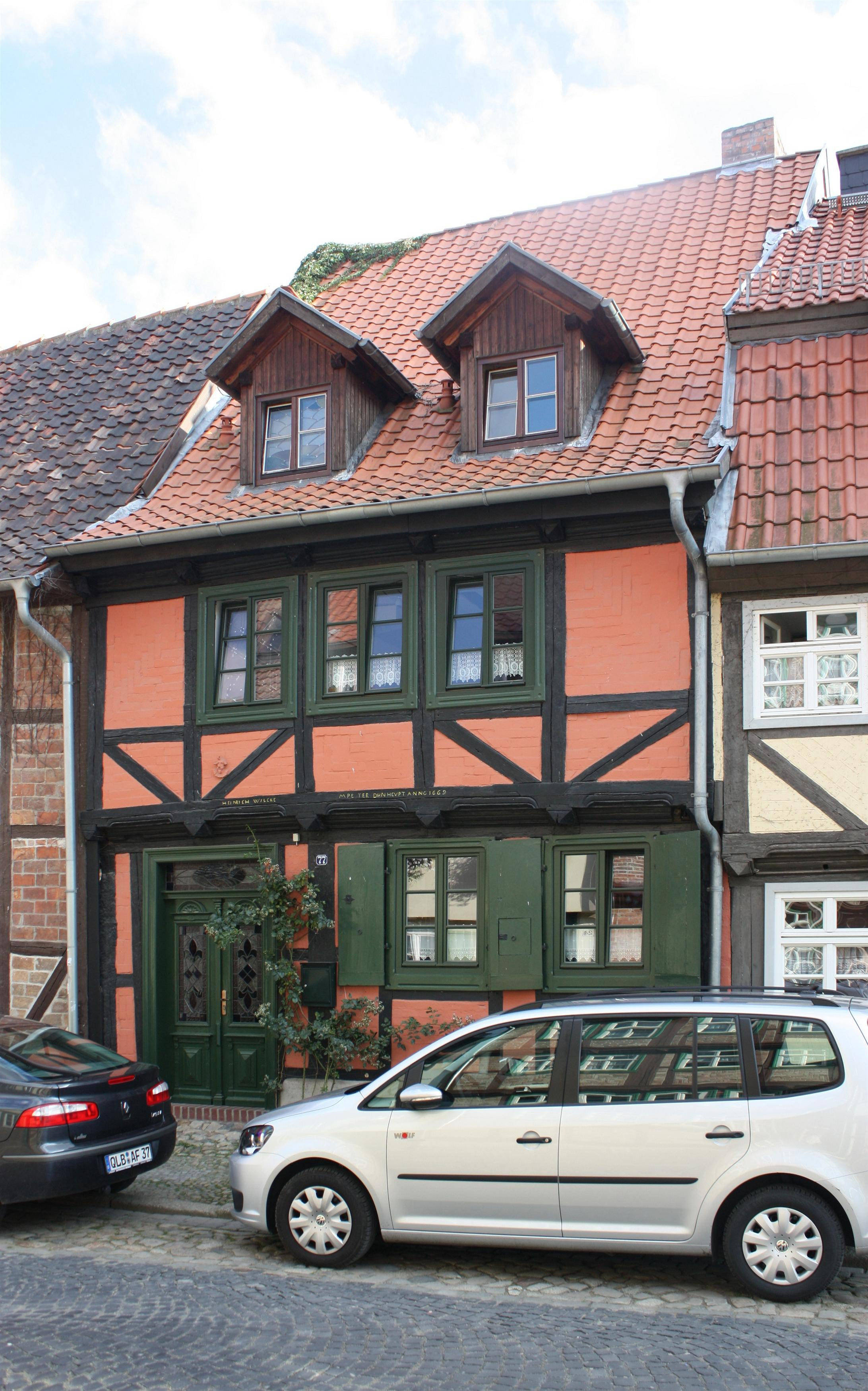 This is a photograph of an architectural monument.It is on the list of cultural monuments of Quedlinburg Augustinern 77 in Quedlinburg